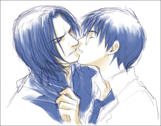 Slash fan art drawn by Yukipon, based on description given by J. K. Rowling in the Harry Potter series.(Severus y Harry